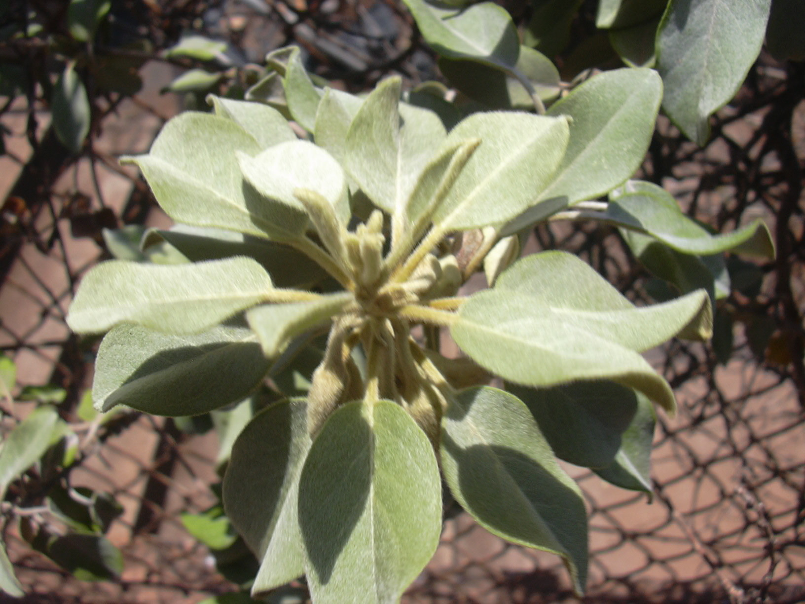 Bonamia menziesii (leaves). Location: Maui, State nursery Kahului